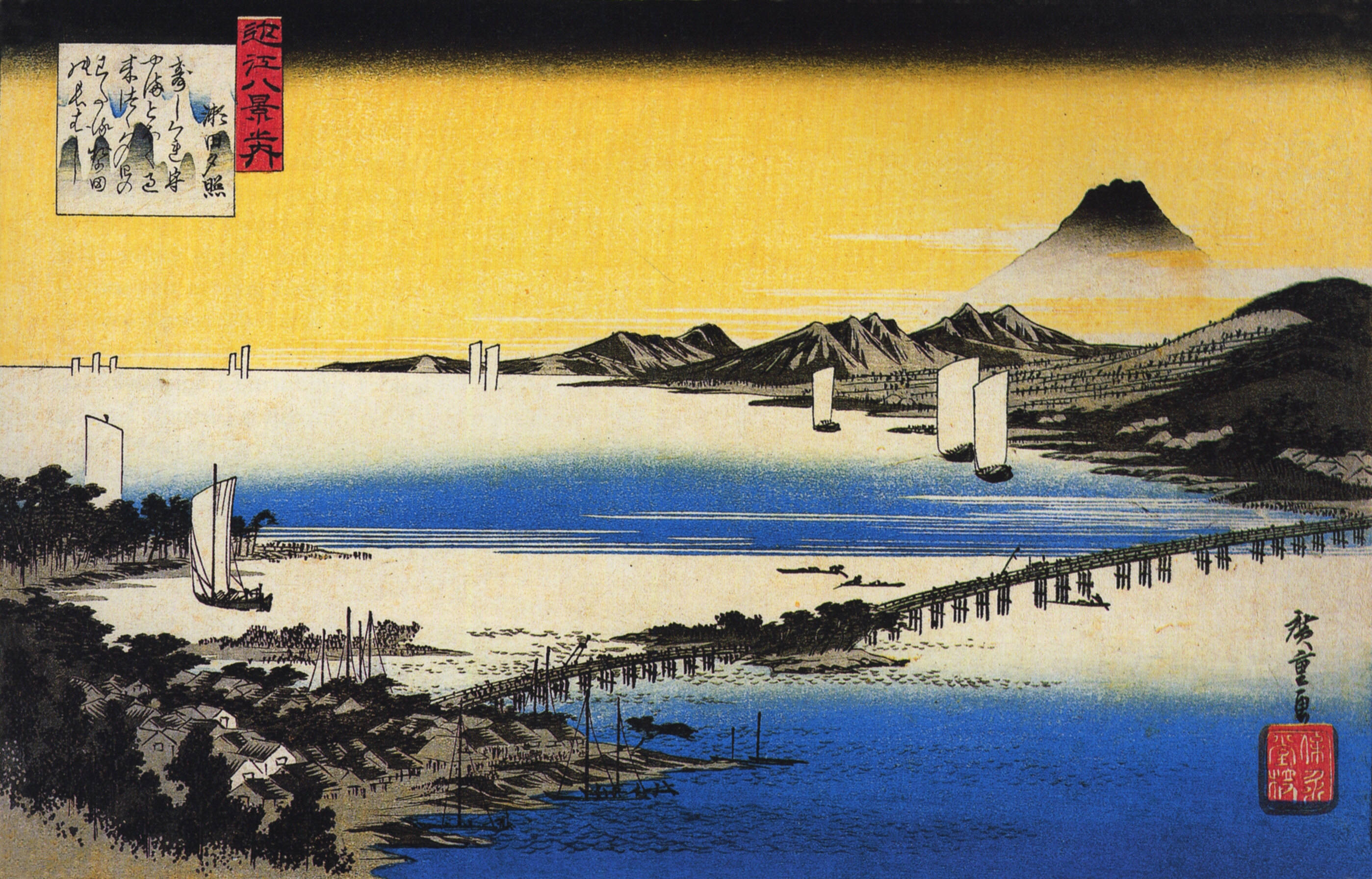 8 Views of Omi - #7. Evening Glow In Seta